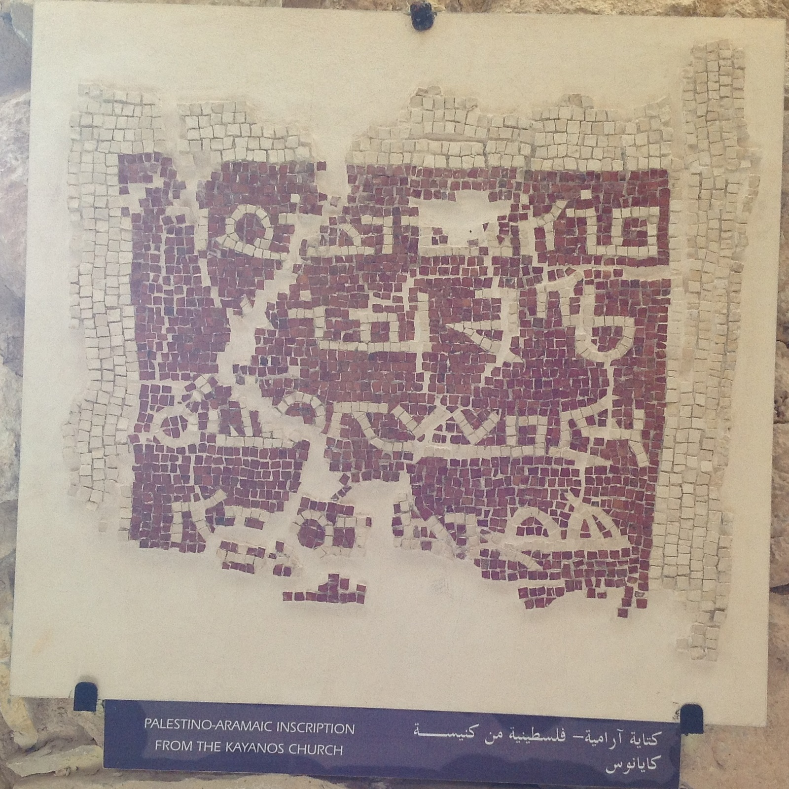 Aramaic inscription from the Kayanos church